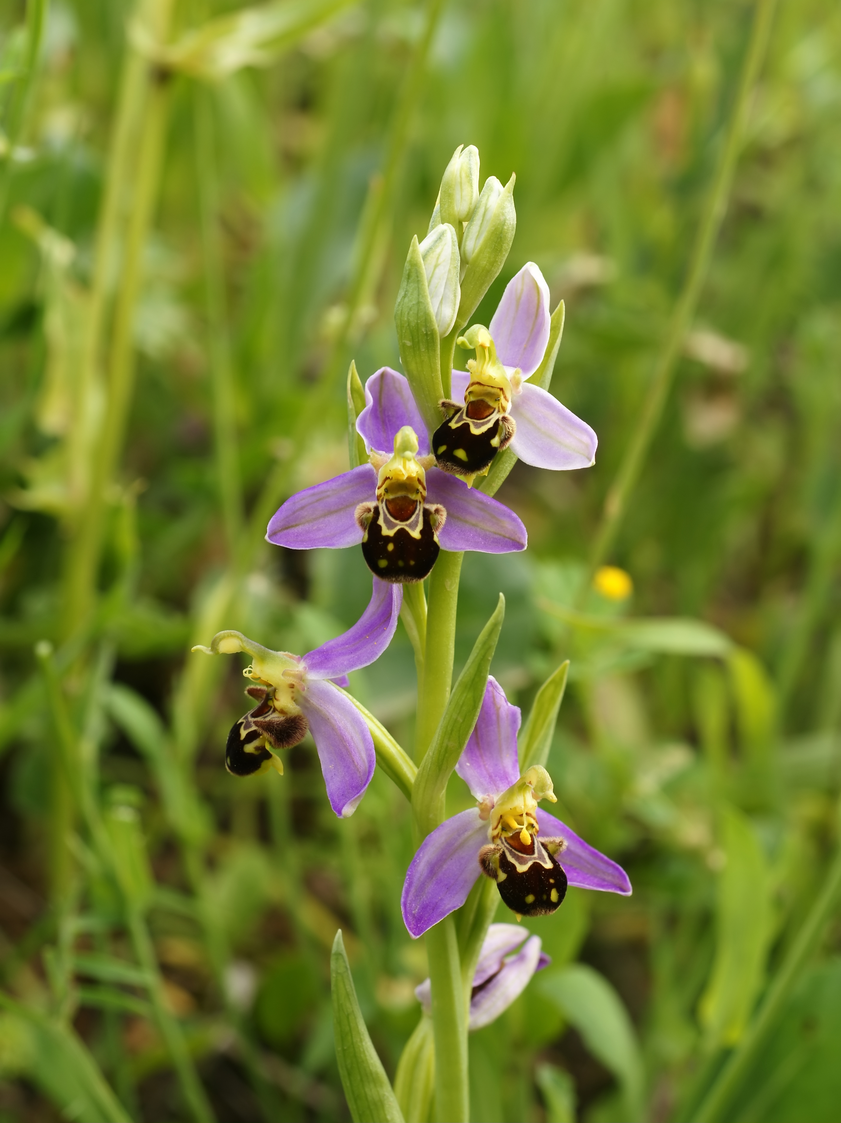 Bee Orchid. Approximate co-ordinates: plant located within 5 km from Cantoniera sclamoris, Sardinia, Italy.